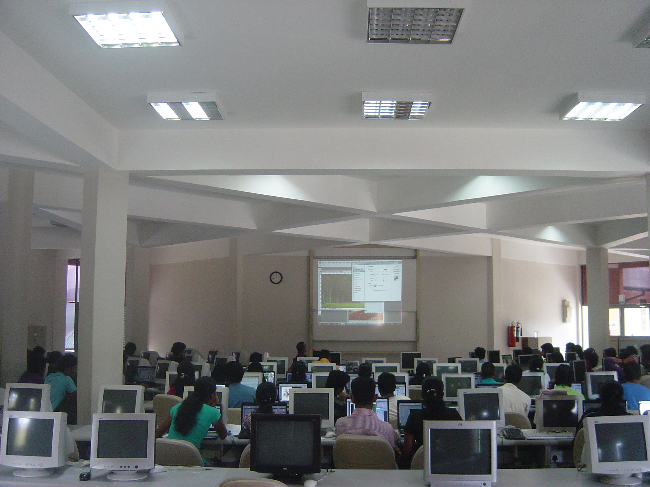 uva wellassa university